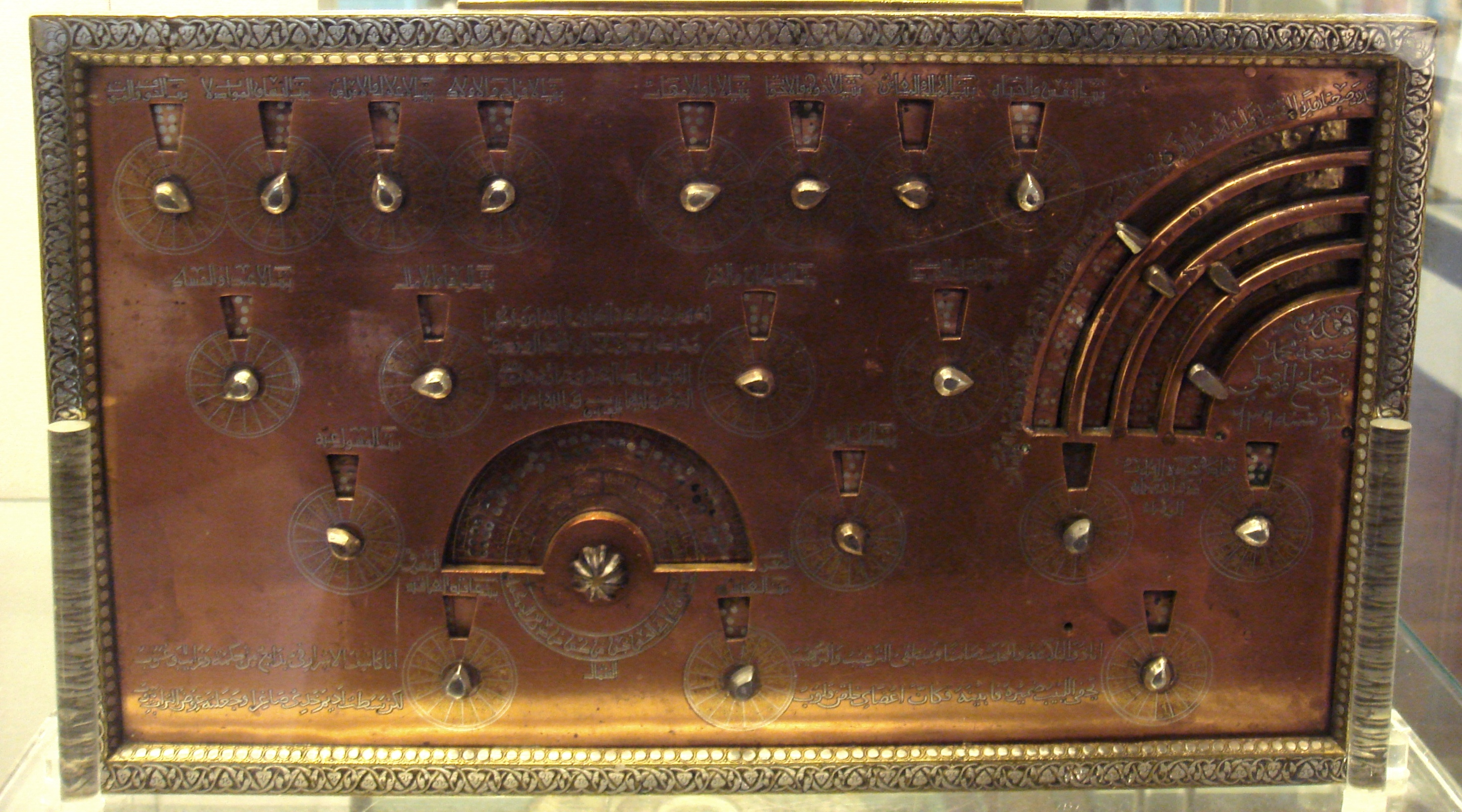 Geomantic_instrument_Egypt_or_Syria_1241_1242_CE_Muhammad_ibn_Khutlukh_al_Mawsuli